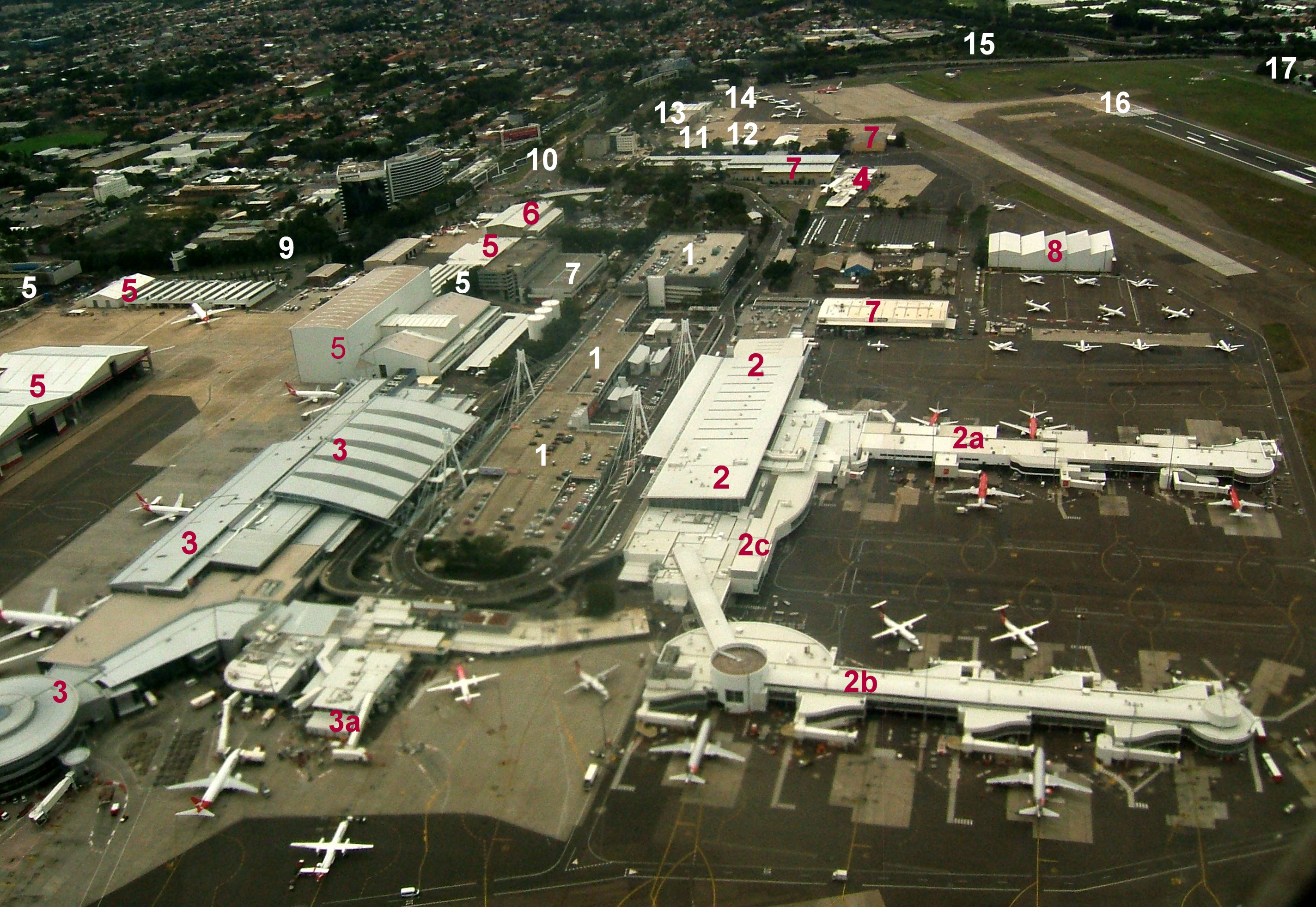 Annotated version of image of the domestic precinct at Sydney Airport in Australia. 1. Car parks 2. Terminal 2 2a. Virgin Blue and Tiger Airways terminal pier 2b. Jetstar and QantasLink (Eastern Australia Airlines) terminal pier 2c. Bus pick up and drop off point for Regional Express Airlines and Aeropelican Air Services passengers 3. Terminal 3 3a QantasLink (Sunstate Airlines) gate 4. Former Domestic Express terminal 5. Qantas aircraft maintenance facilities 6. Eastern Australia Airlines aircraft maintenance hangar 7. Freight company facilities 8. Private aircraft hangar 9. Qantas Drive 10. Domestic Airport entrance; intersection of Qantas Drive, O'Riordan Street, Joyce Drive and Sir Reginald Ansett Drive 11. Ambulance Service of New South Wales Air Ambulance facility 12. Regional Express Airlines aircraft maintenance hangar 13. Fixed base operators and aircraft maintenance hangars 14. General Aviation aircraft parking area 15. General Holmes Drive 16. Eastern end of Runway 07/25 17. Heliport